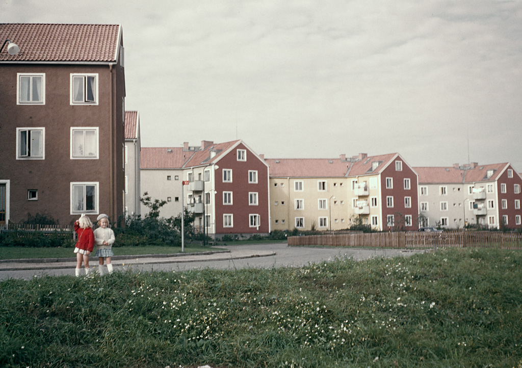 Children at Östra Vintergatan street (East Winter street) in Rosta in Örebro